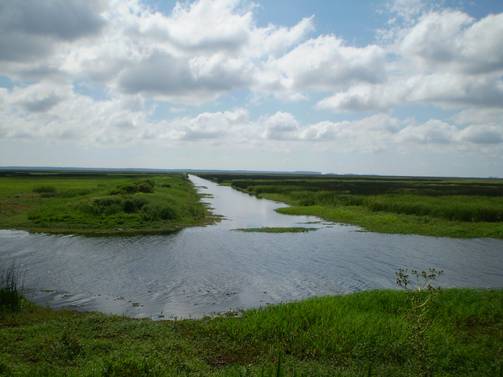 View of the ecological reserve of Taim, municipalities of Santa Vitória do Palmar and Rio Grande, Rio Grande do Sul, Brazil.